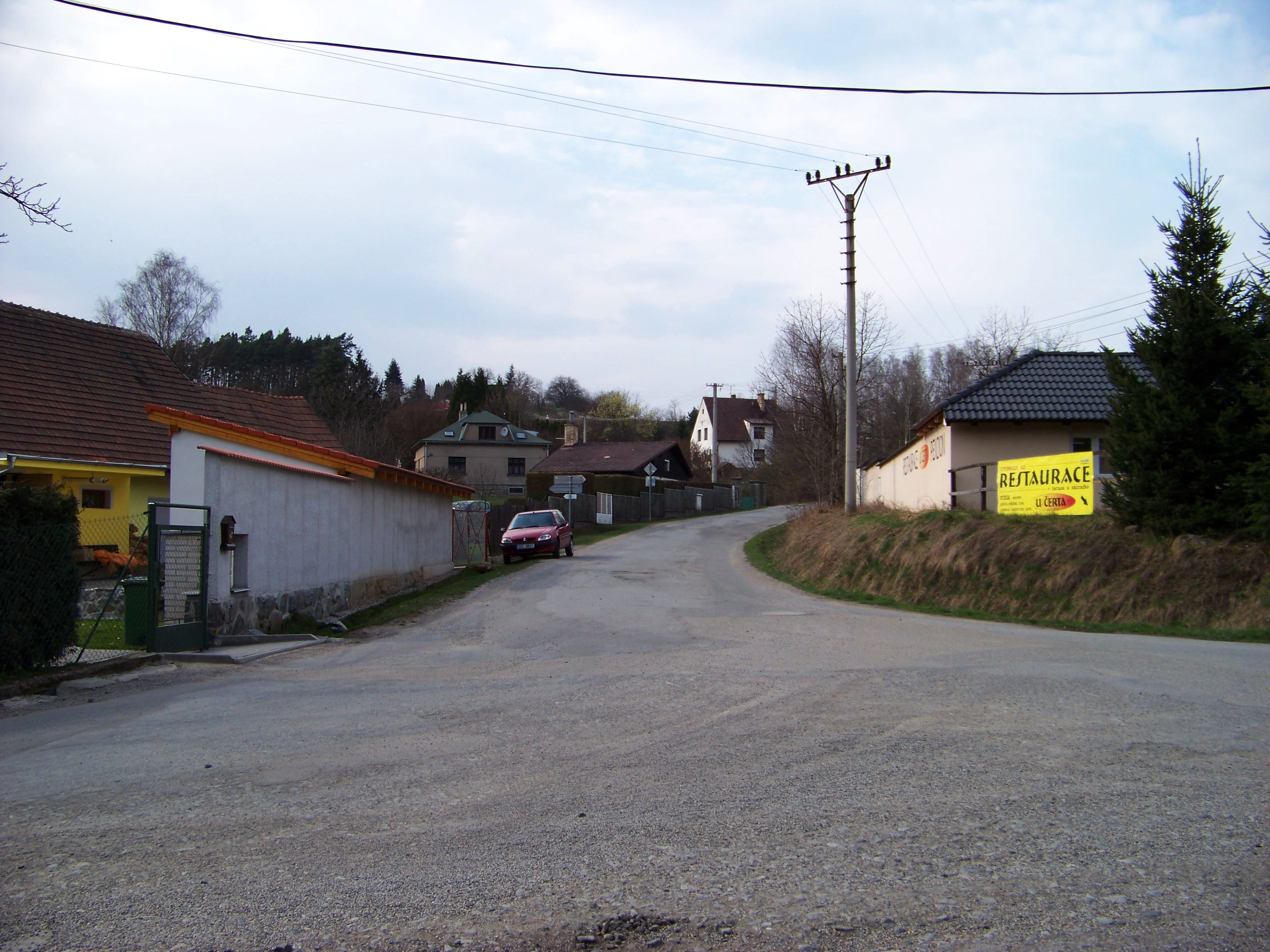 Čtyřkoly, Benešov District, Central Bohemian Region, the Czech Republic. Road III/1096. - OpenStreetMap(Info)